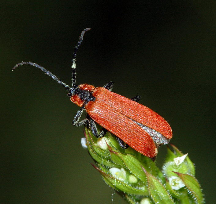 Lygistopterus sanguineus, Darmstadt, Germany